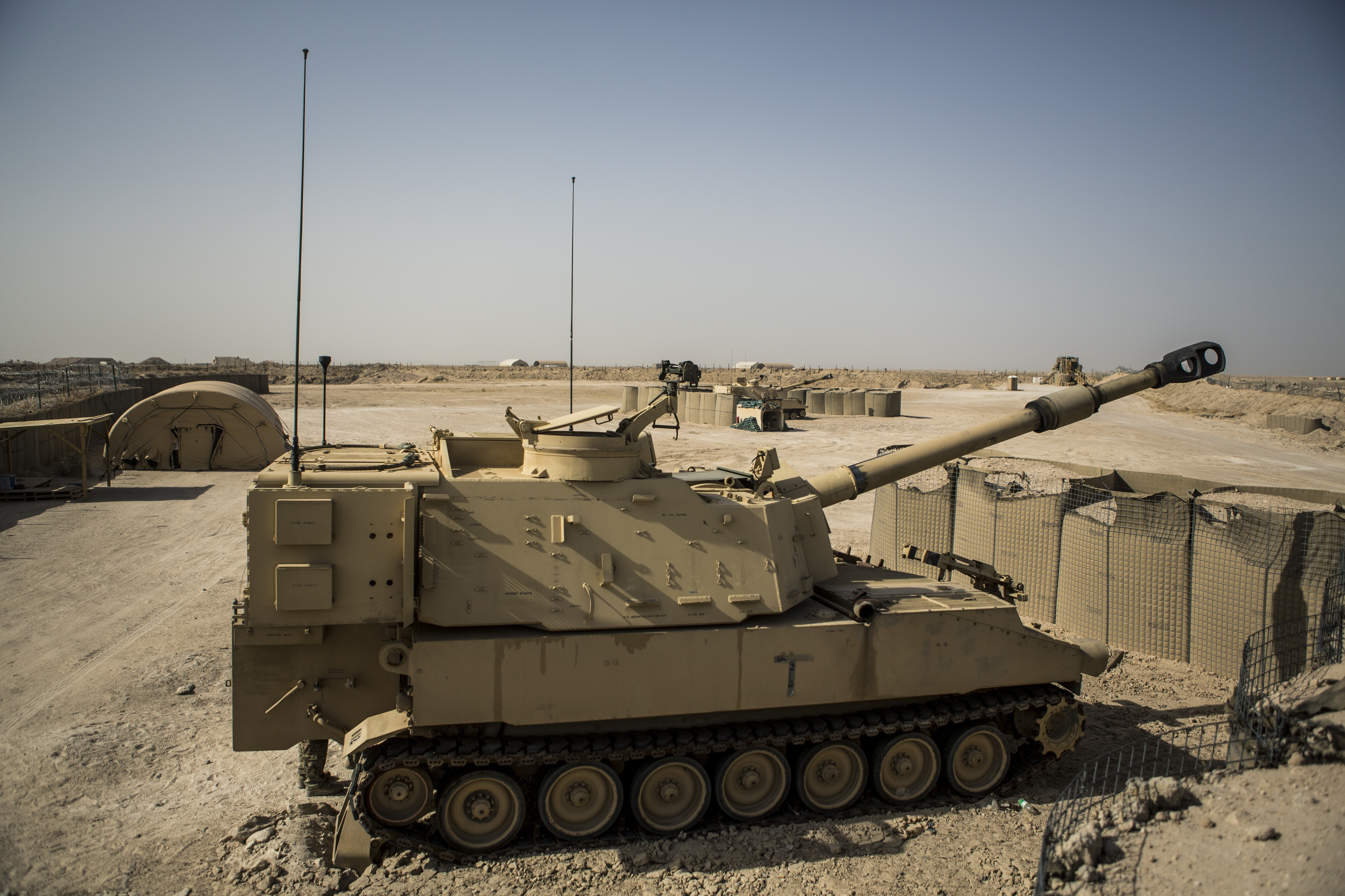 U.S. Army Soldiers with Battery C, 4th Battalion, 1st Field Artillery Regiment, 1st Armored Division, Task Force Al Taqaddum, conduct artillery strikes with an M109A6 Paladin howitzer at Al Taqaddum Air Base, Iraq, June 27, 2016. The strikes were conducted in support of Operation Inherent Resolve, the operation aimed at eliminating the Islamic State of Iraq and the Levant, and the threat they pose to Iraq, Syria, and the wider international community. The destruction of ISIL targets in Iraq further limits the group's ability to project terror and conduct operations. (U.S. Marine Corps photo by Sgt. Donald Holbert/ Released) Unit: 5th Marine Expeditionary Brigade